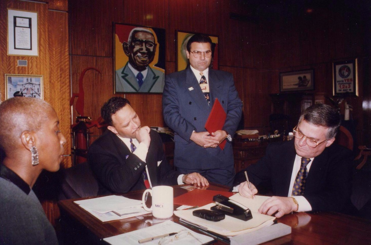 Signing of the twinning between the communities of Isola del Liri and New Orleans. Present were the Italian console, the previous Mayors Marc H. Morial and Bruno Magliocchetti, Mrs. Luisa Lutrario, Mr. Luciano Duro (initiator of the Liri Blues festival) and Prof. Gianni Blasi. The delegation from Isola del Liri received the honorary citizenship from the Mayor of New Orleans Marc H. Morial.